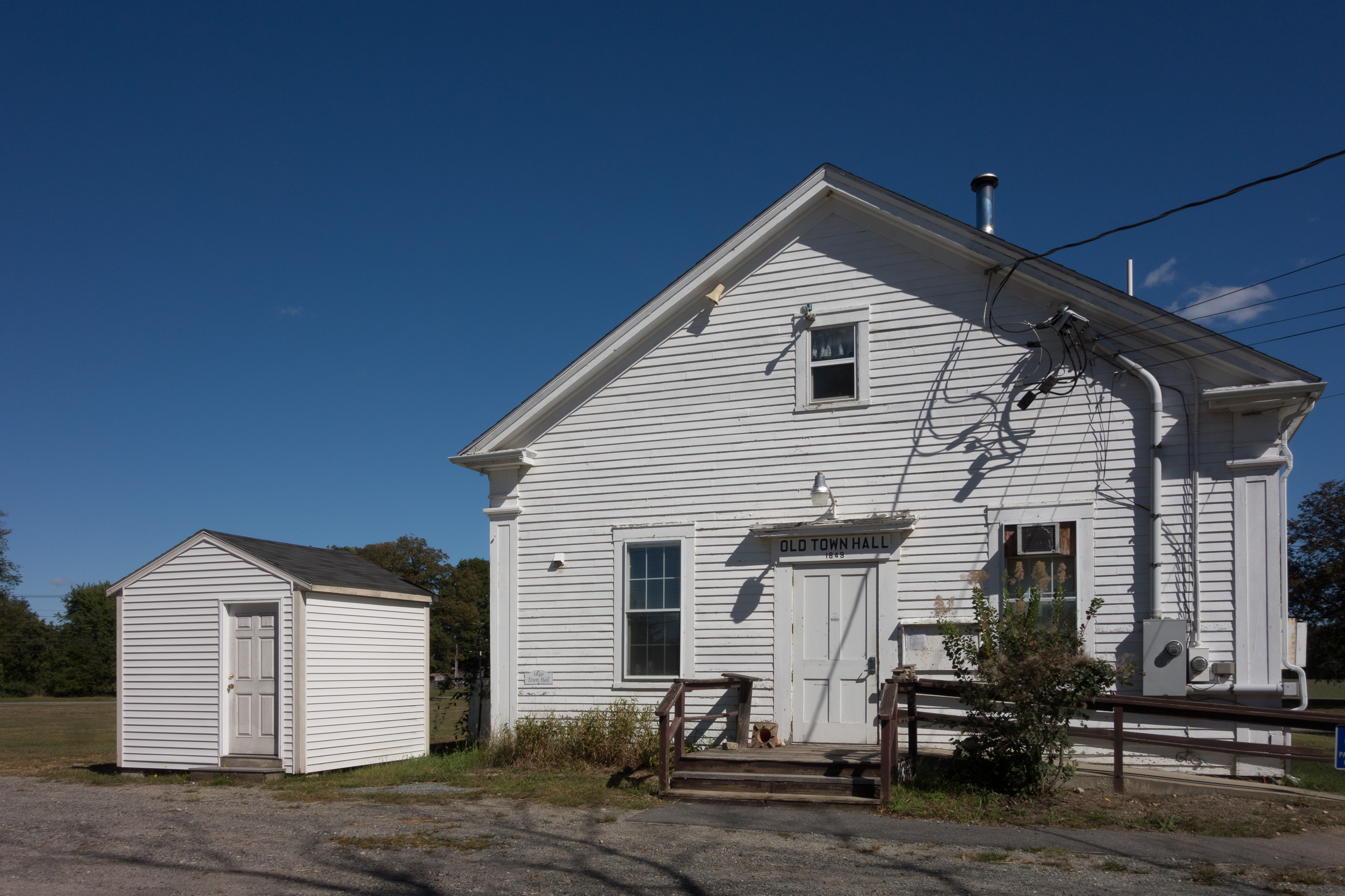 Berkley Old Town Hall. Part of Berkley Common (Massachusetts) NRHP 15000980